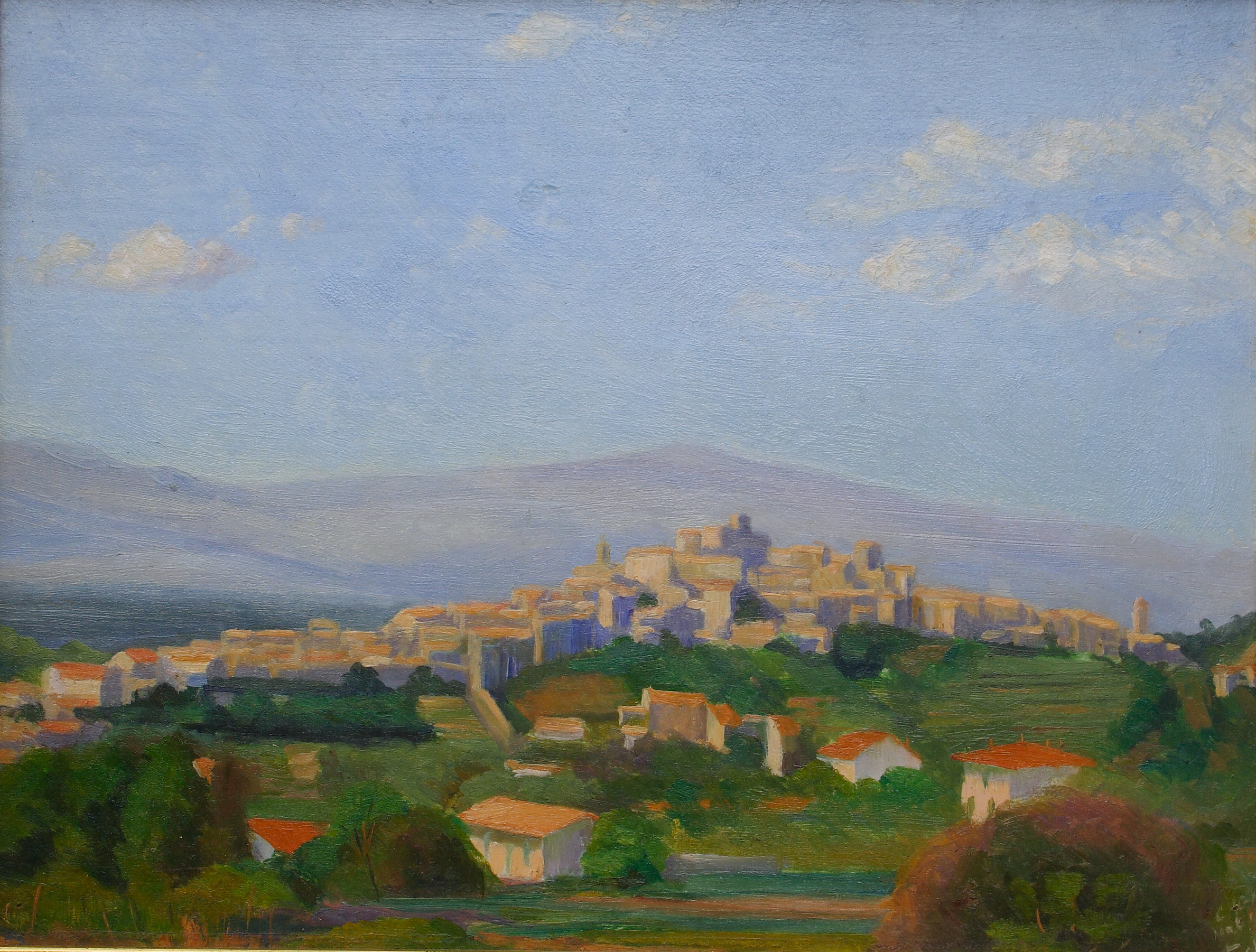 Cagnes sur mer by Georges Emile Lebacq.